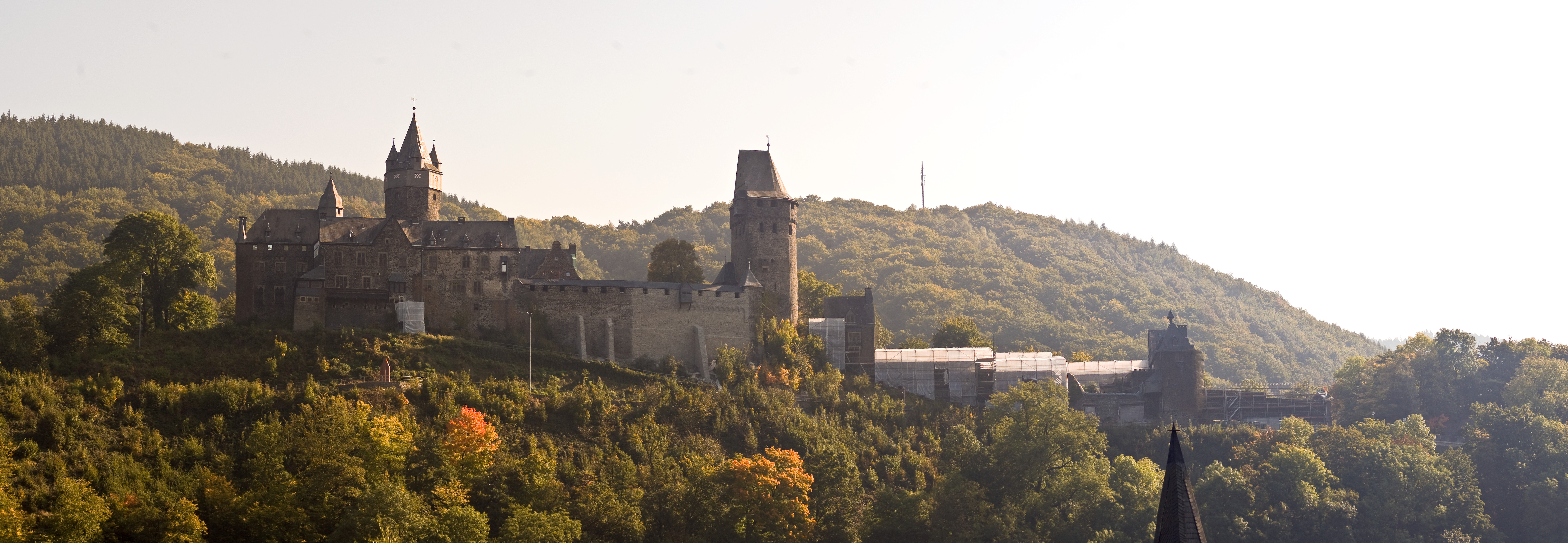 Castle of Altena, Germany in the morning dust.